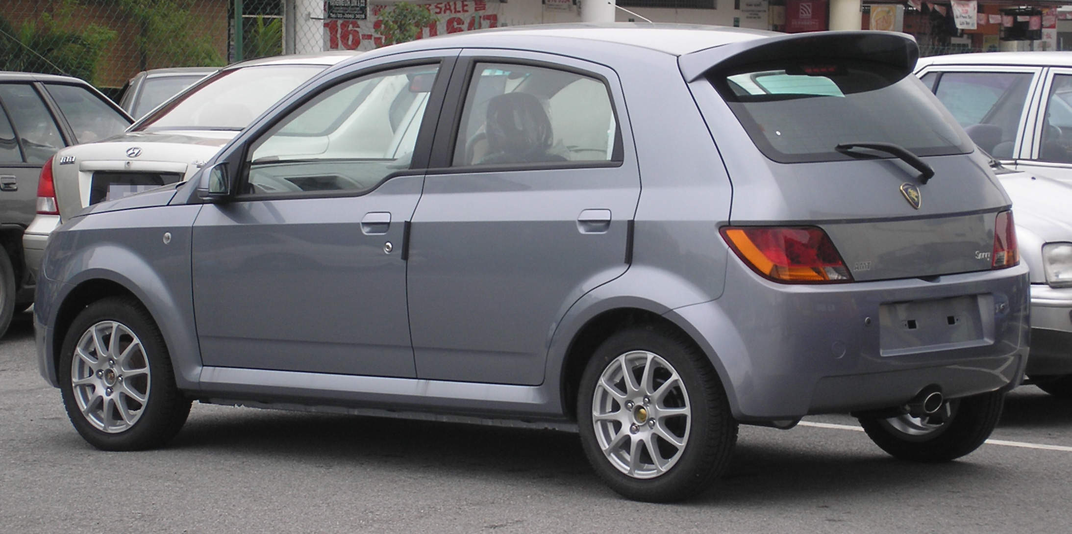 Rear-side shot of a first generation, first facelift, and unregistered Proton Savvy, in Serdang, Selangor, Malaysia.